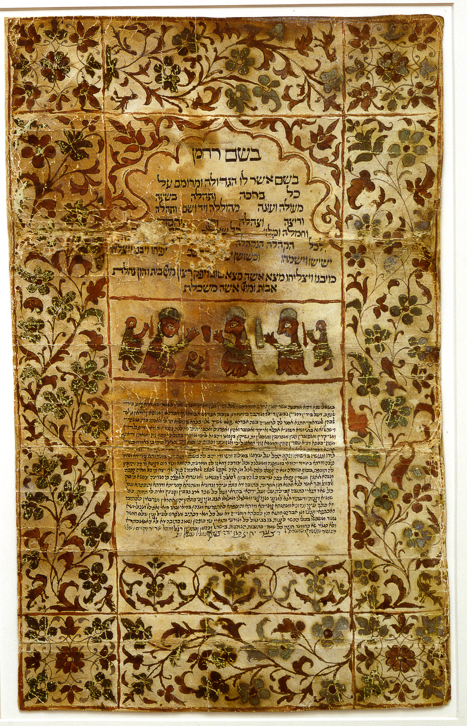 Taken from The Ketubot Collection of the National Library of Israel San'a, Yemen, 1794 Groom: Abraham, son of Mussa, son of Yahya Salem al-Cohen al-'Araqi Bride: Rumiyyeh, daughter of Abraham Salem al-Sheikh al-Levi Parchment, gouache, pen and ink H: 42, W: 26 cm Collection of The Israel Museum, Jerusalem